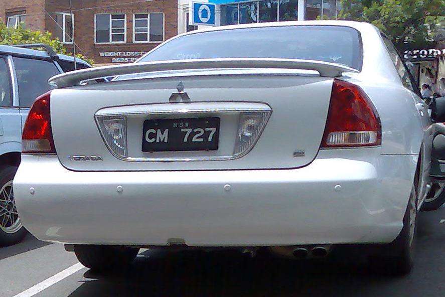 2003–2004 Mitsubishi KL Verada Ei sedan. Photographed in Gymea, New South Wales, Australia.